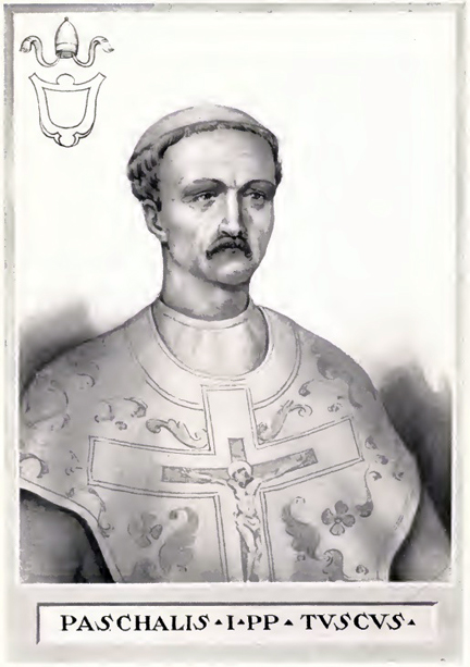 This illustration is from The Lives and Times of the Popes by Chevalier Artaud de Montor, New York: The Catholic Publication Society of America, 1911. It was originally published in 1842.